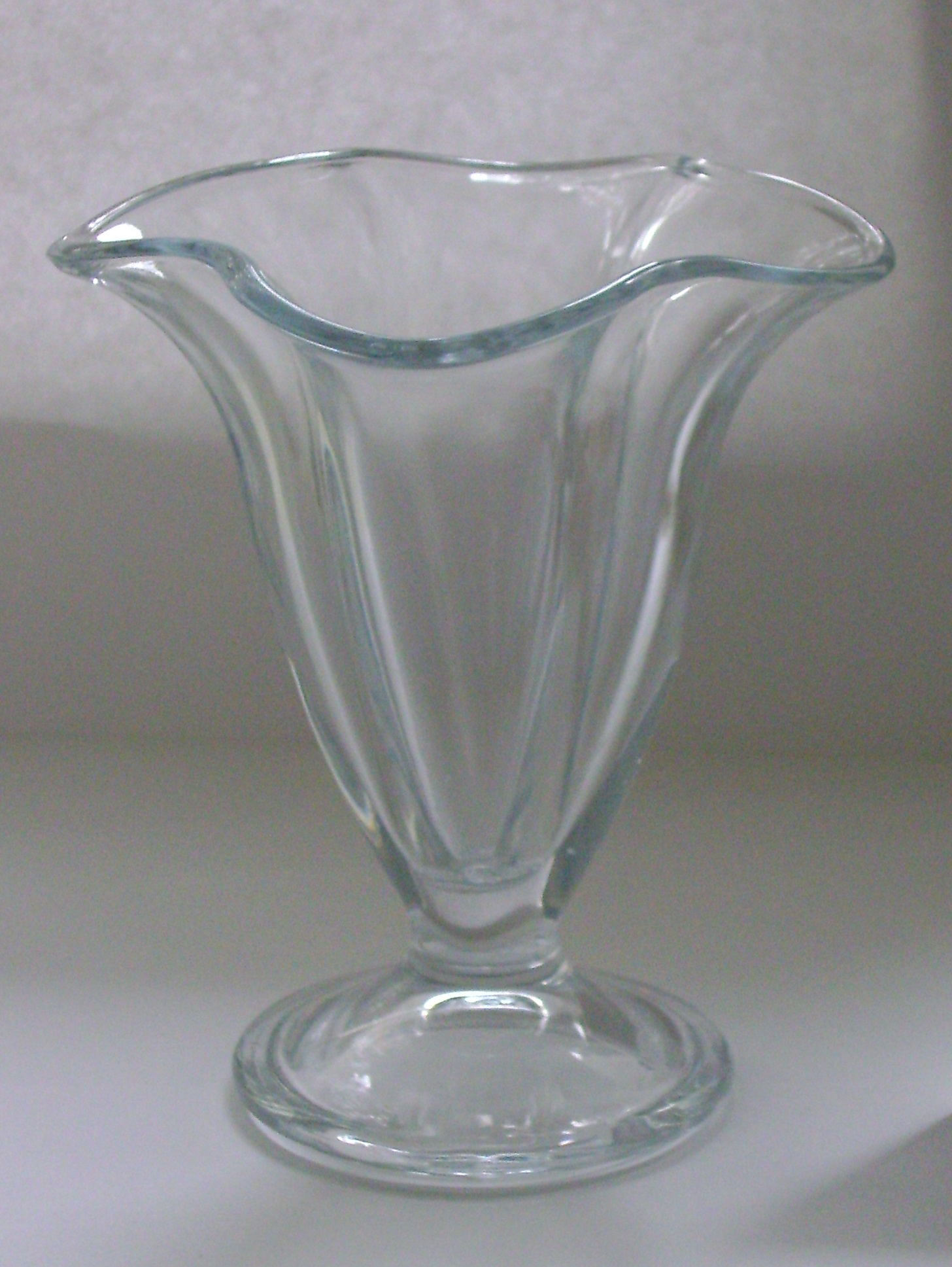 ice-cream bowl, tableware